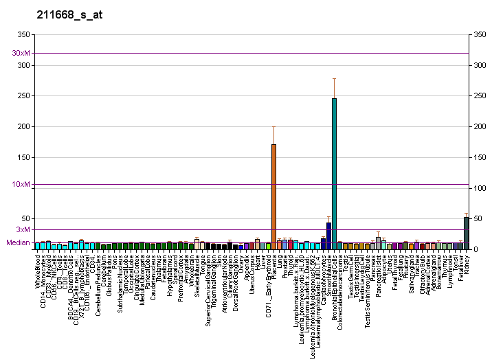 Gene expression pattern of the PLAU gene.